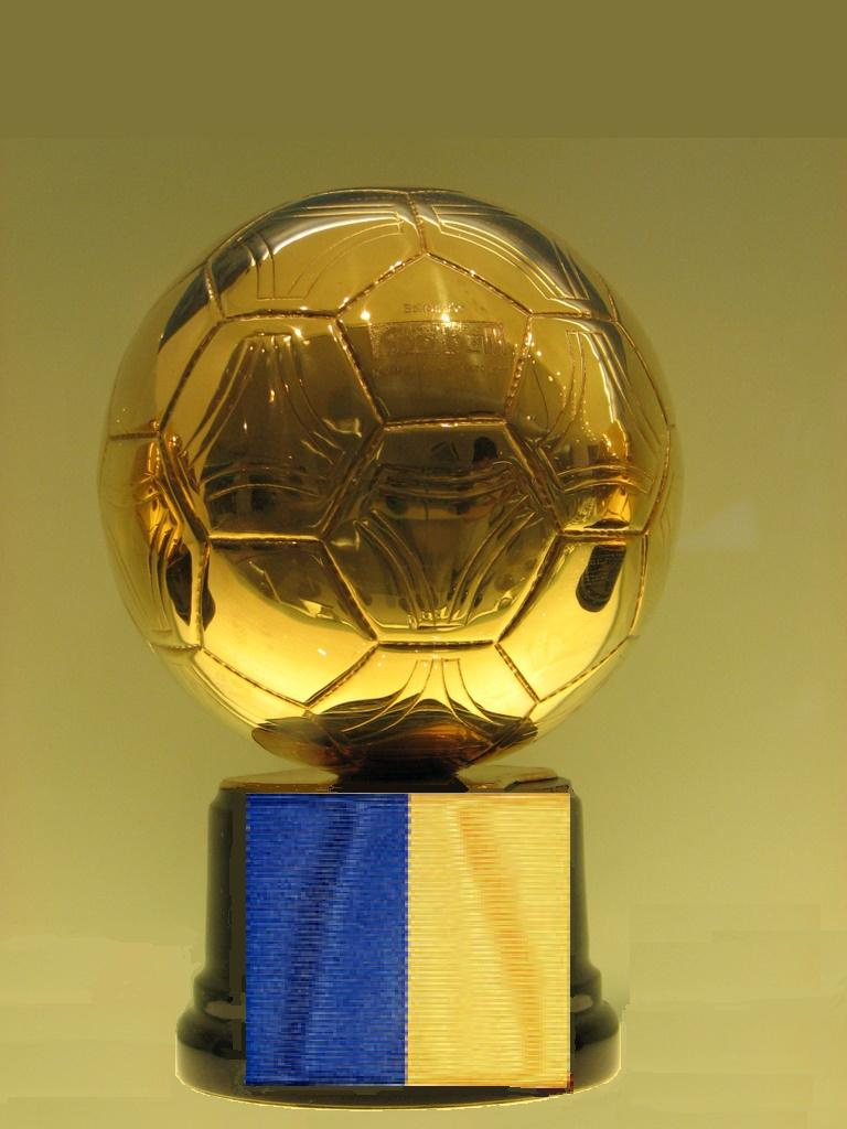 A Gold Ball (of football) with a Ukrainian flag; Ukrainization of a Gold Ball.